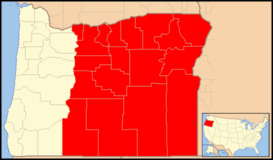 Map of the Catholic diocese of Baker (Oregon) in the USA. Source map